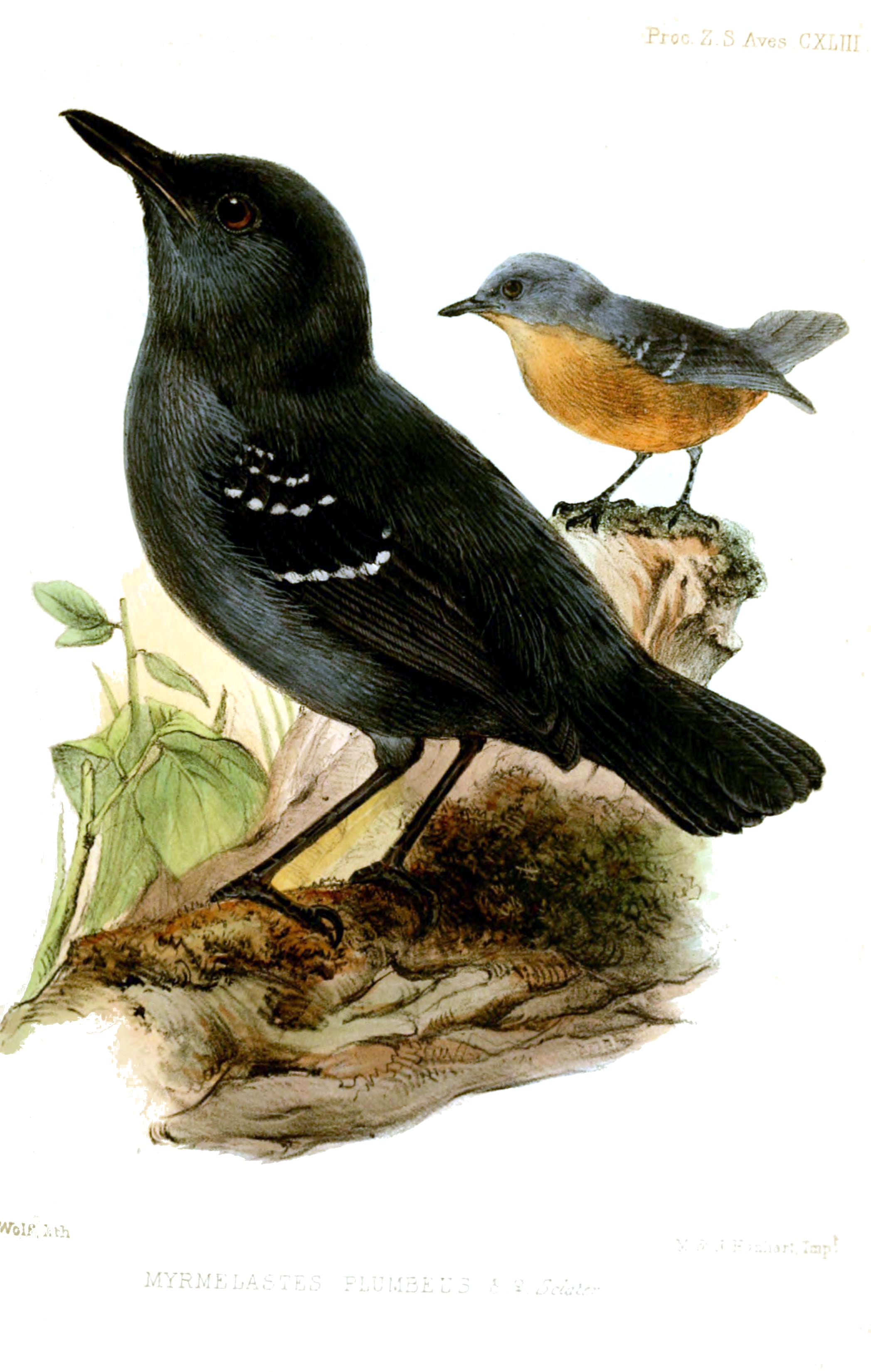 Plumbeous Antbird, adult male (front) and adult female (behind)